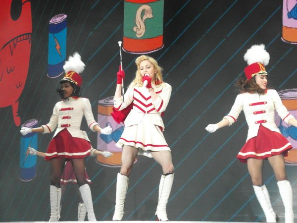 Madonna singing "Express Yourself/"Born This Way" during a concert in Barcelona